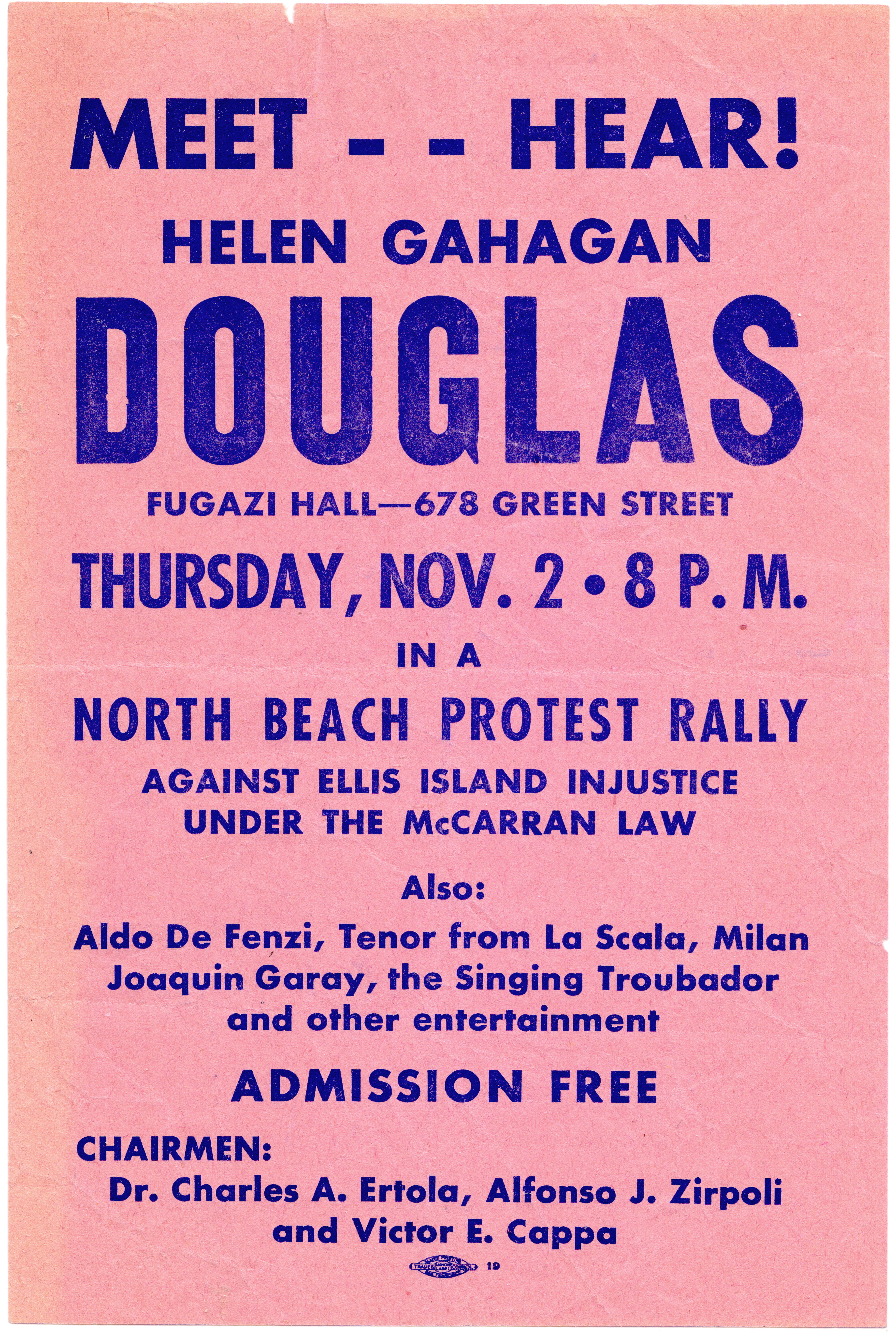 Election poster for Helen Douglas